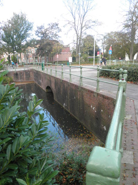 Old bridge named after the Koepoort